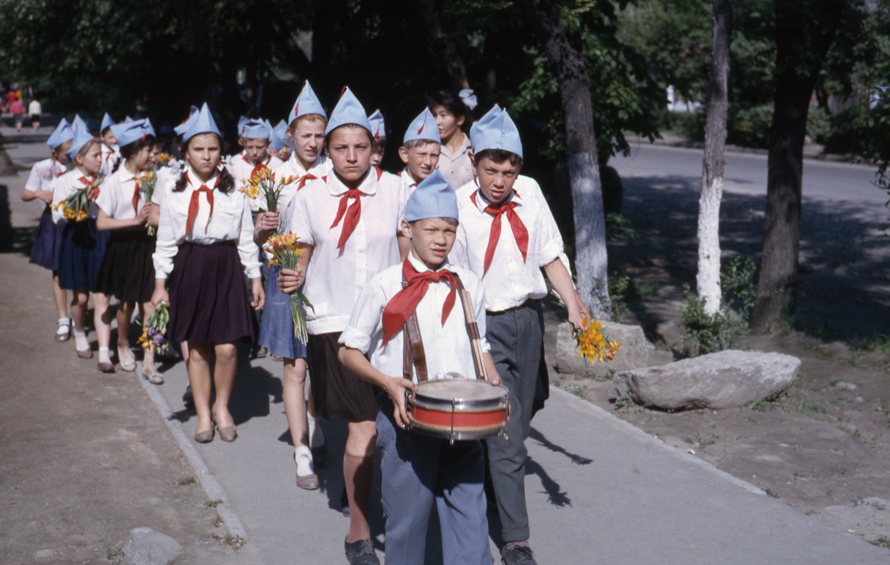 These photos were taken by Thomas T. Hammond during his trip to Central Asia in the Soviet Union. This specific image features a group of young pioneers in Almaty.